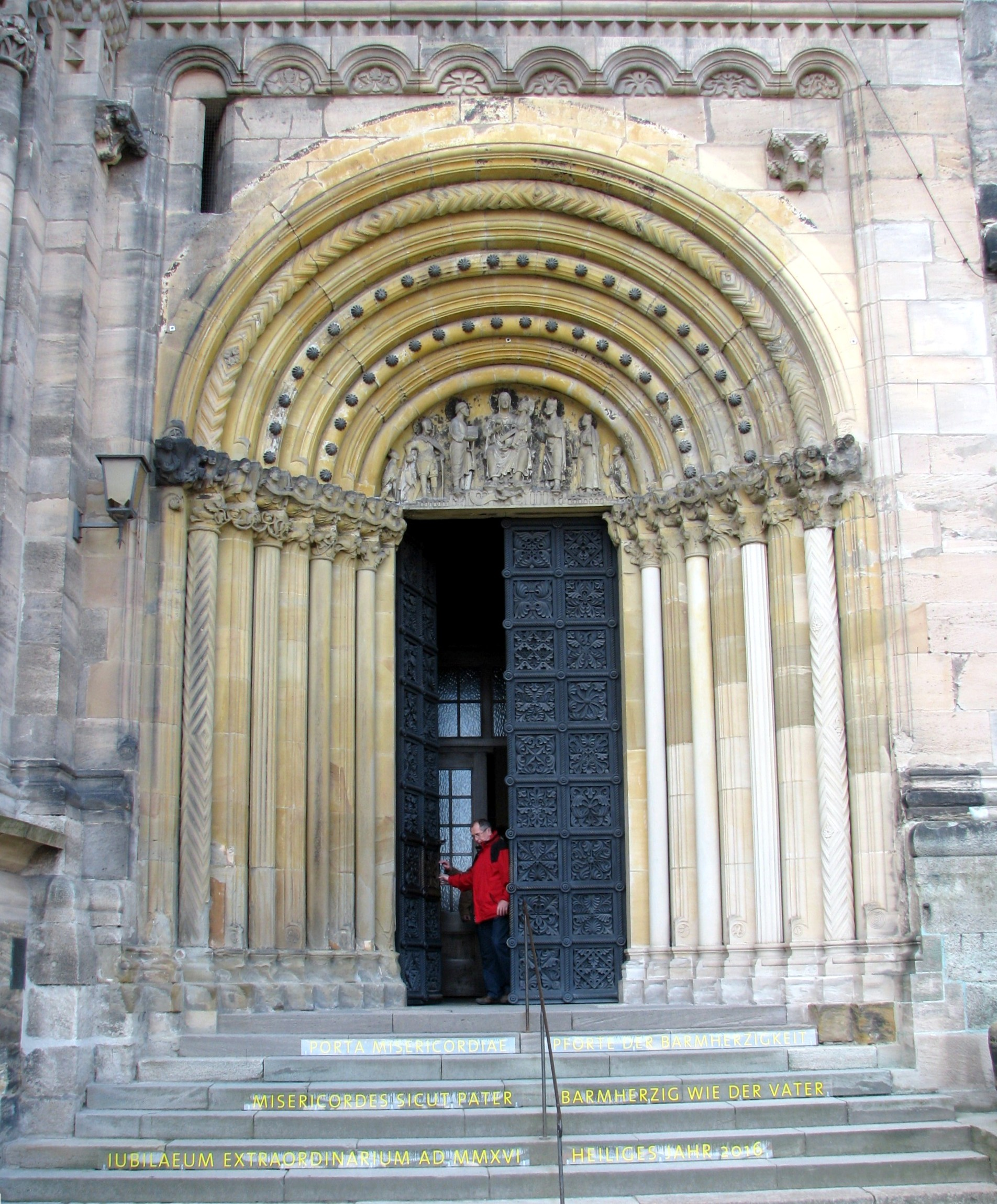 Bamberg, Cathedral, Maria Portal